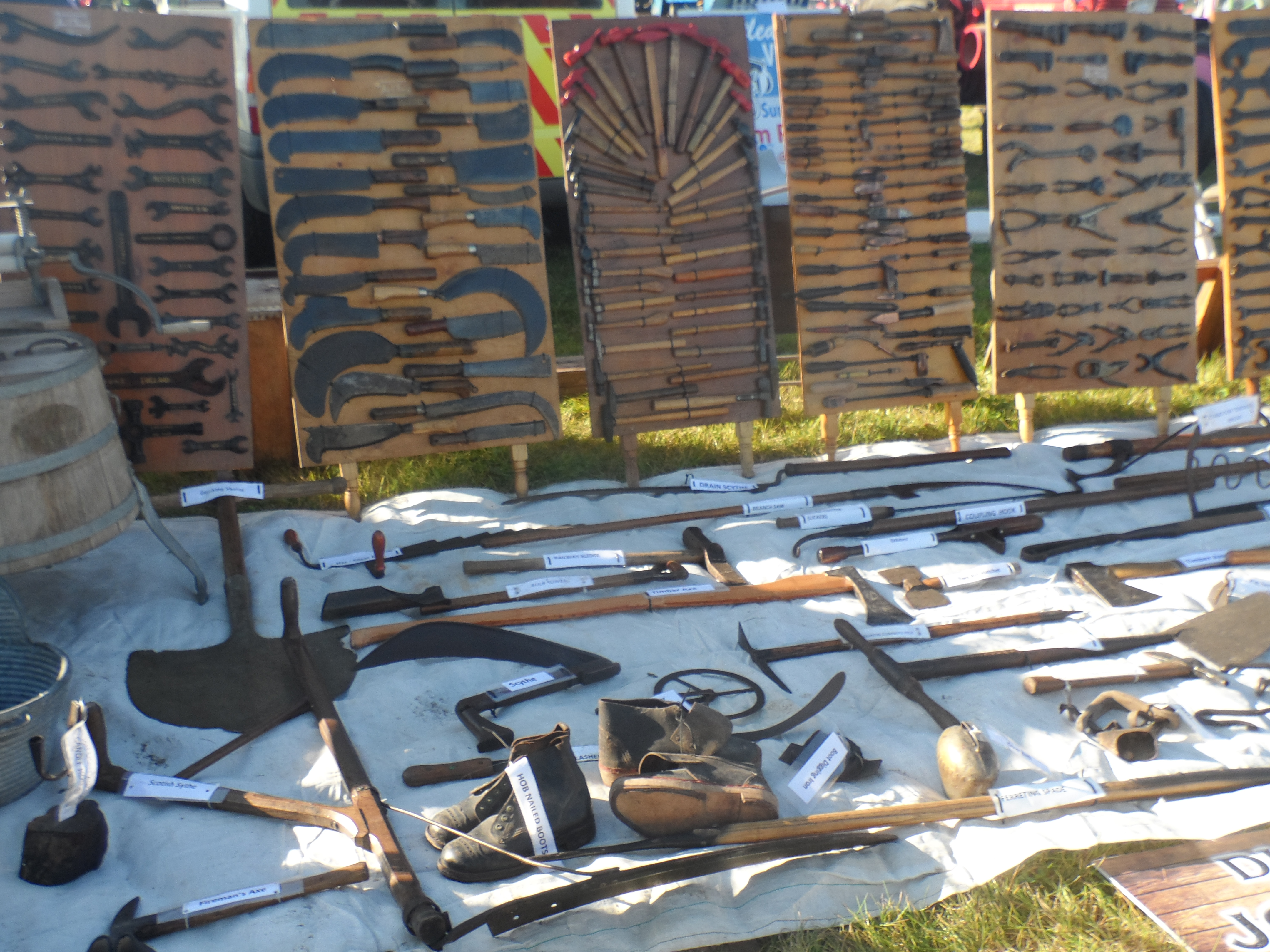 Agricultural tools at show